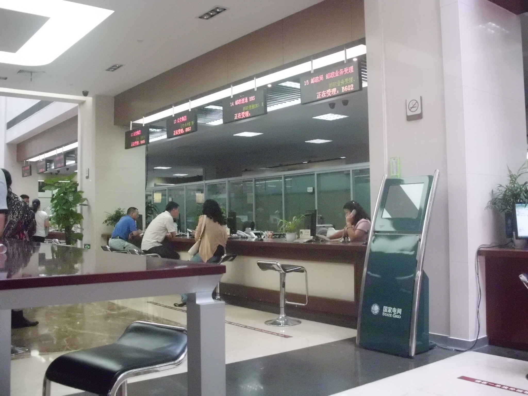 Hangzhou public service center